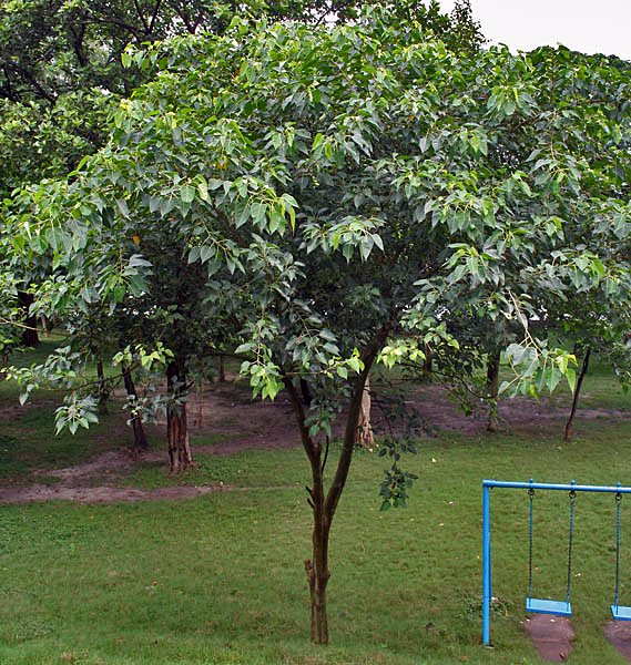 Pilkhan Ficus virens. Kolkata, West Bengal, India